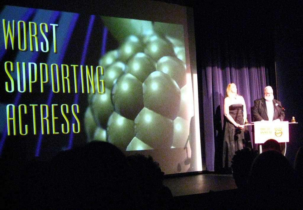 At the Razzies!